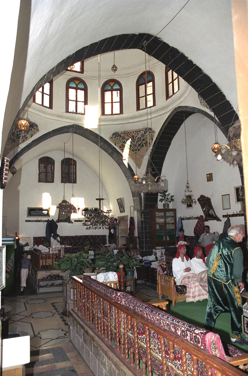 Damascus, Bath Nour Eddin